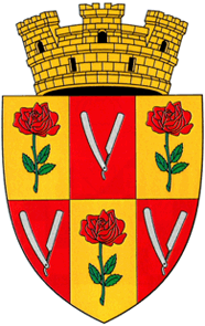 CoA of Briceni.gif